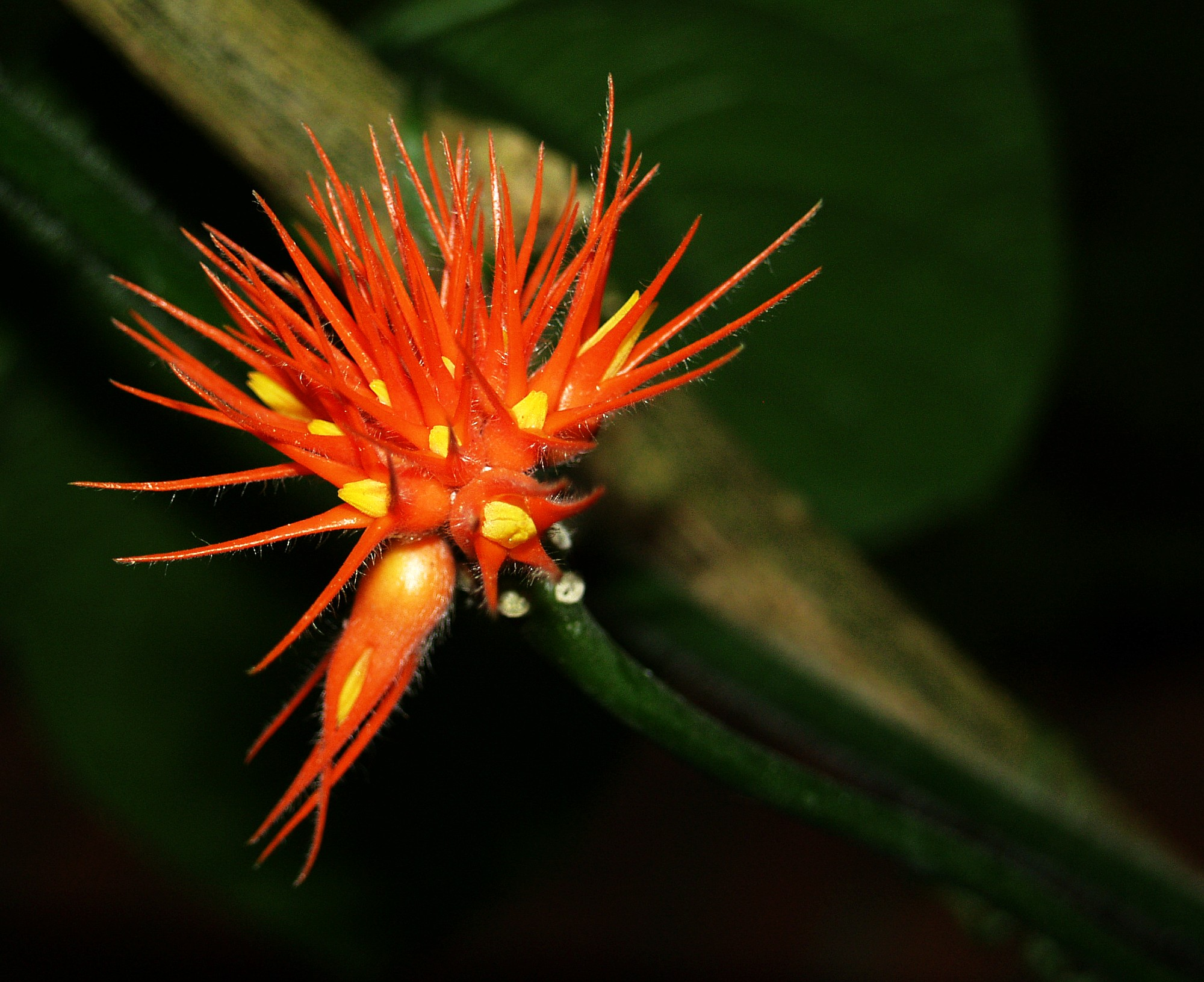 Flower of Gurania malacophylla — at Botanical Garden Flora (Köln), Cologne.